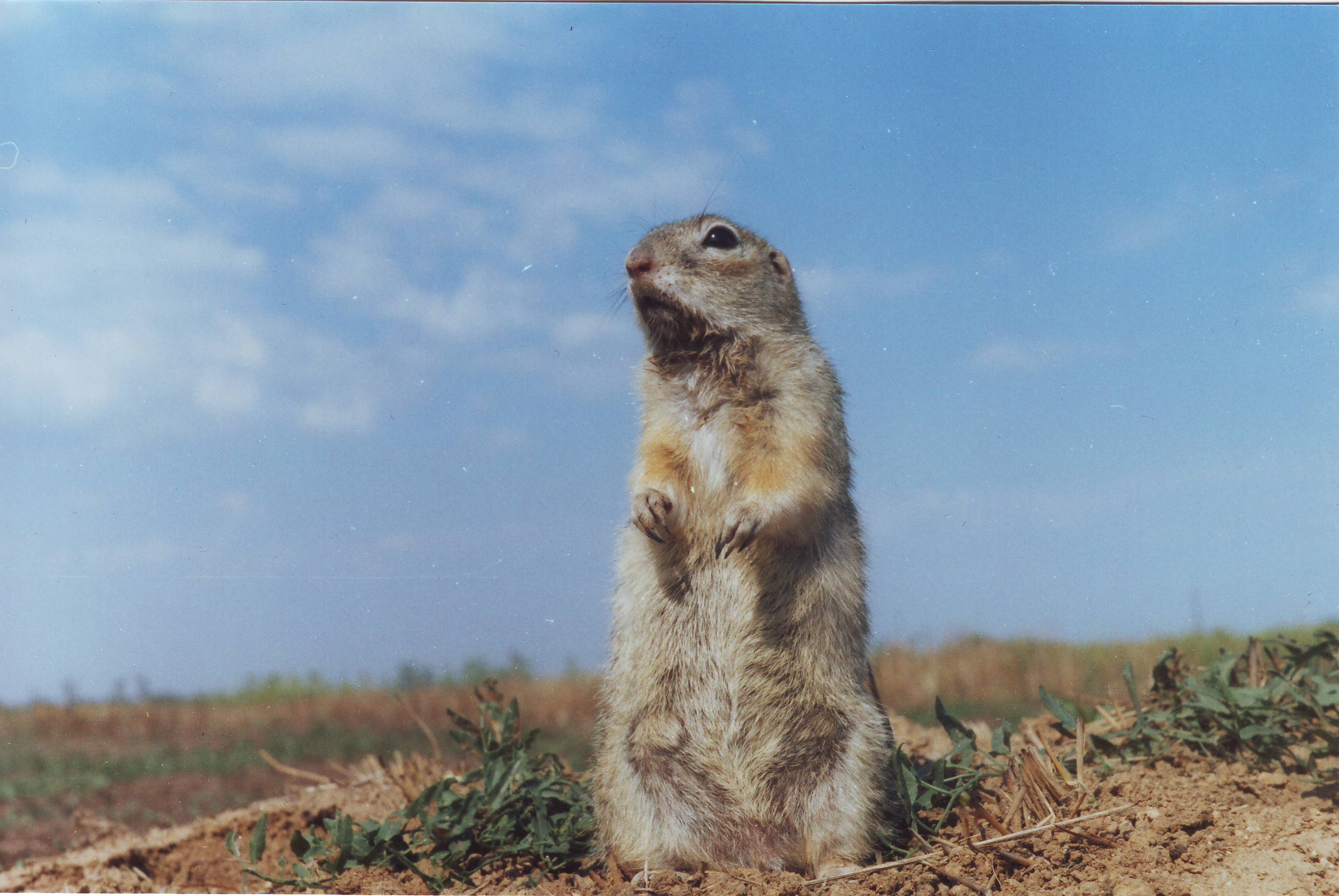 Speckled ground squirrel near its burrow. Odesa oblast, Ukraine.